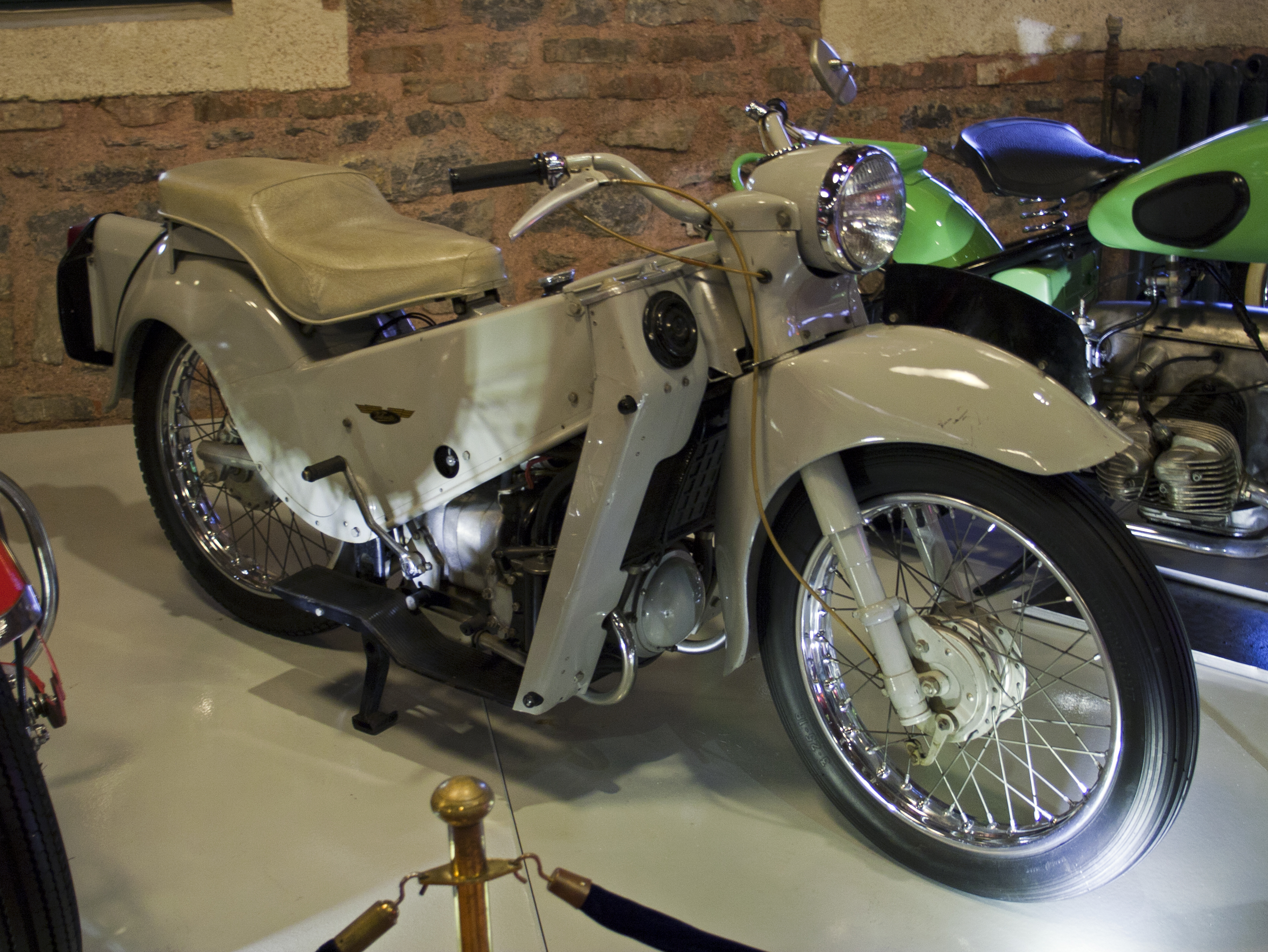 A 1958-on Velocette LE Mk III on display in the Rahmi M. Koç Museum of Transportation